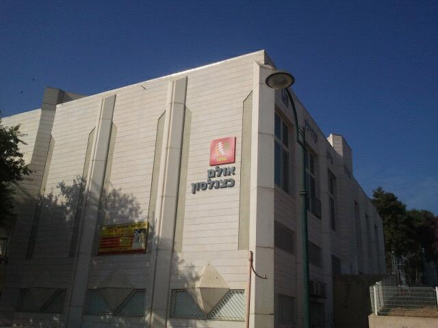 Katznelson Sport Hall In Gedera